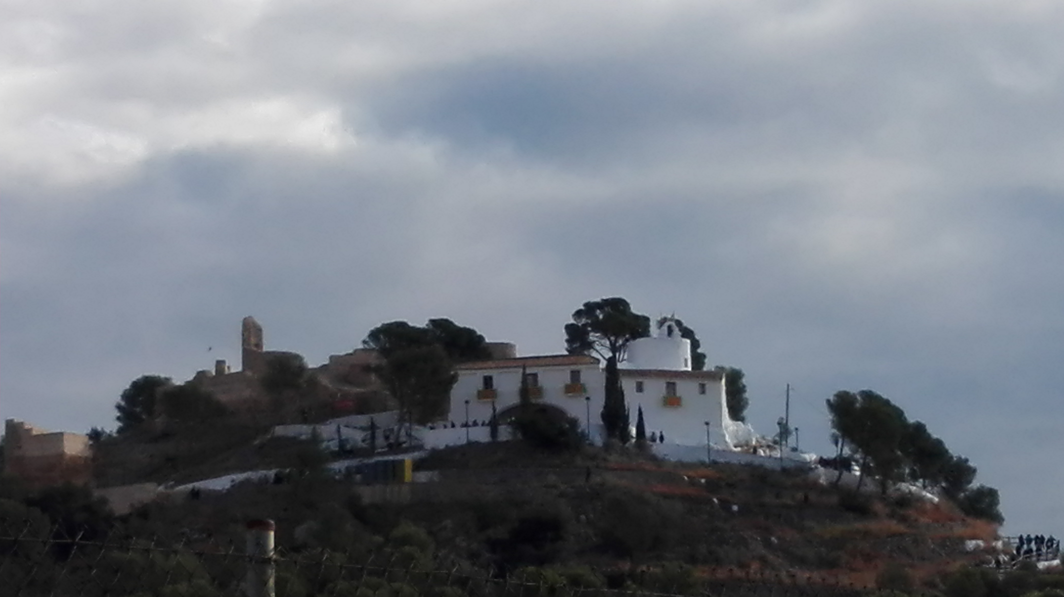 View of the Saint Mary Magdalene hermitage and the Castell Vell castle during the "Romería de les Canyes" pilmgrinage in the Magdalena festival on sunday 28 of February, 2016 in Castelló de la Plana, Spain.